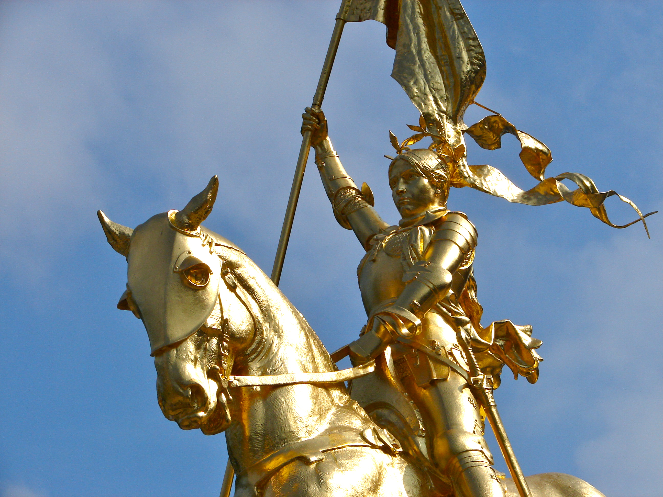 1890 statue of Joan of Arc in Philadelphia, first placed near Girard Ave. Bridge, gilded and moved in 1960 to just north of the Museum of Art. 2 other original casts were made, 1 placed in the Place des Pyramids in Paris, the other in Nancy, France. By Emmanual Fremiet.